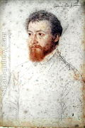 Lorenzo Strozzi